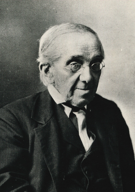 The botanist Augustin Gattinger (1825-1903)